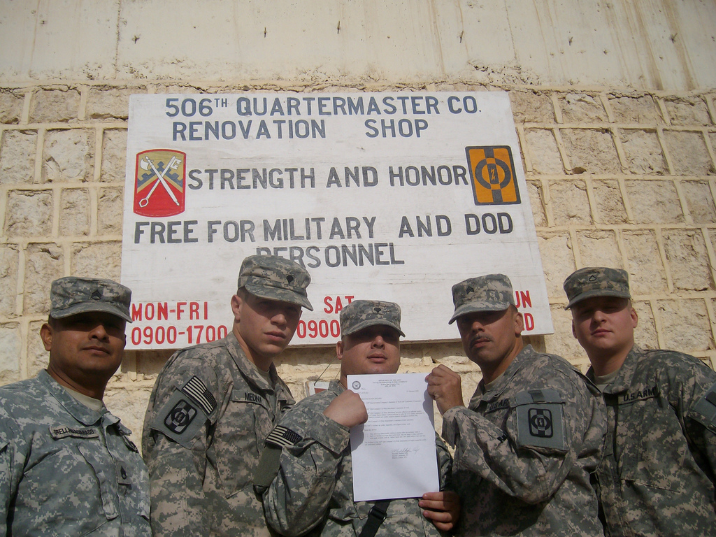 Sgt. Magno Orellana, Spc. Hiram Rivera, Spc. Gonzalo Medina, Sgt. Joseph Hernandez and Pfc. Justin Czerwinski, all from 506th Quartermaster Co., 16th Sustainment Brigade, hold up a Letter of Appreciation presented by 1st Lt. Marshall Kulp, platoon leader, 574th QM Co., 16th Sust. Bde, for providing effective and efficient service at the renovation shop on Contingency Operating Base Q-West, Feb. 23. The “Mighty” 506th Soldiers support all uniform repairs and special projects. “We help keep the Soldiers mission ready,” said Sgt. Joseph Hernandez. “We pride ourselves with same day service, so the soldiers remain on the highest level of readiness.” The 506th QM Co. is out of Ft. Lee, Va.